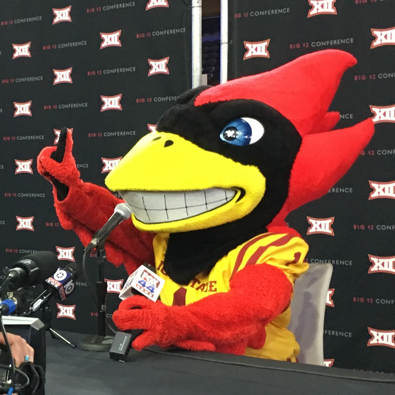 Cy the Cardinal, mascot of Iowa State University, at the 2018 Big 12 Conference Media Days in Frisco, Texas.